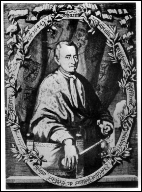 (PD by age)